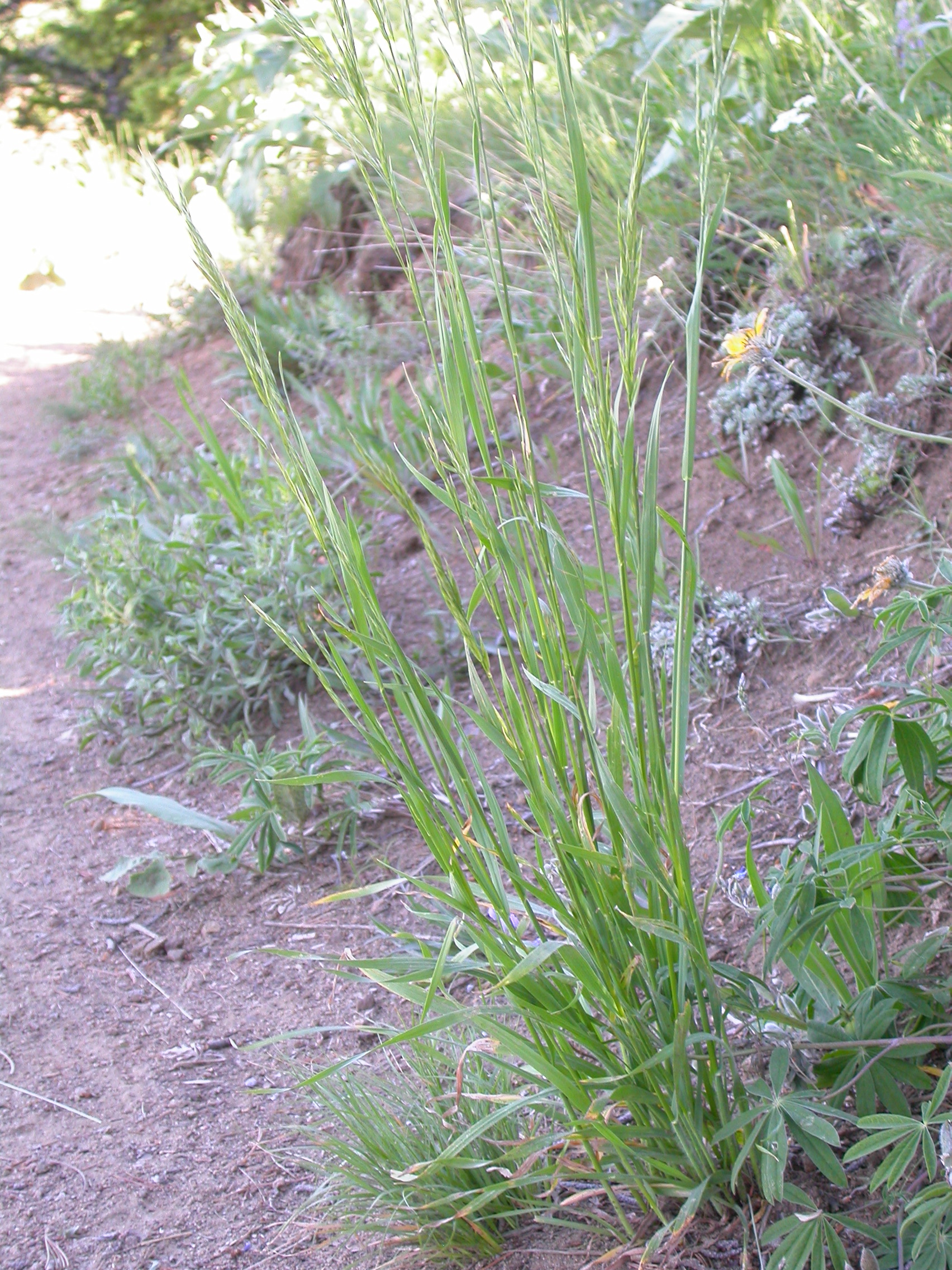 The perennial bunched growth form is evident in this trailside plant.